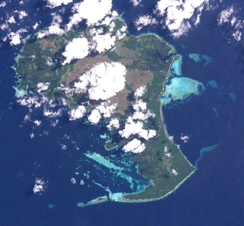 This image (Landsat7) shows Sanaroa Island, part of the D'Entrecasteaux Islands, Papua New Guinea.